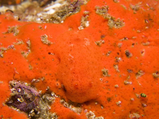 Found on the Gordons Bay side of False Bay in 12m of water. Length 2cm